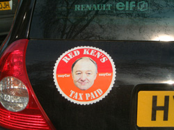 Red Ken car sticker from Easy Rent a Car